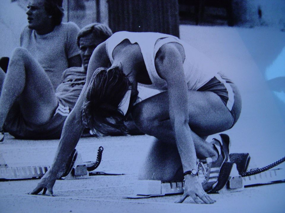 Mona-Lisa Pursiainen during European Athletics Championships held in Rome in 1974.